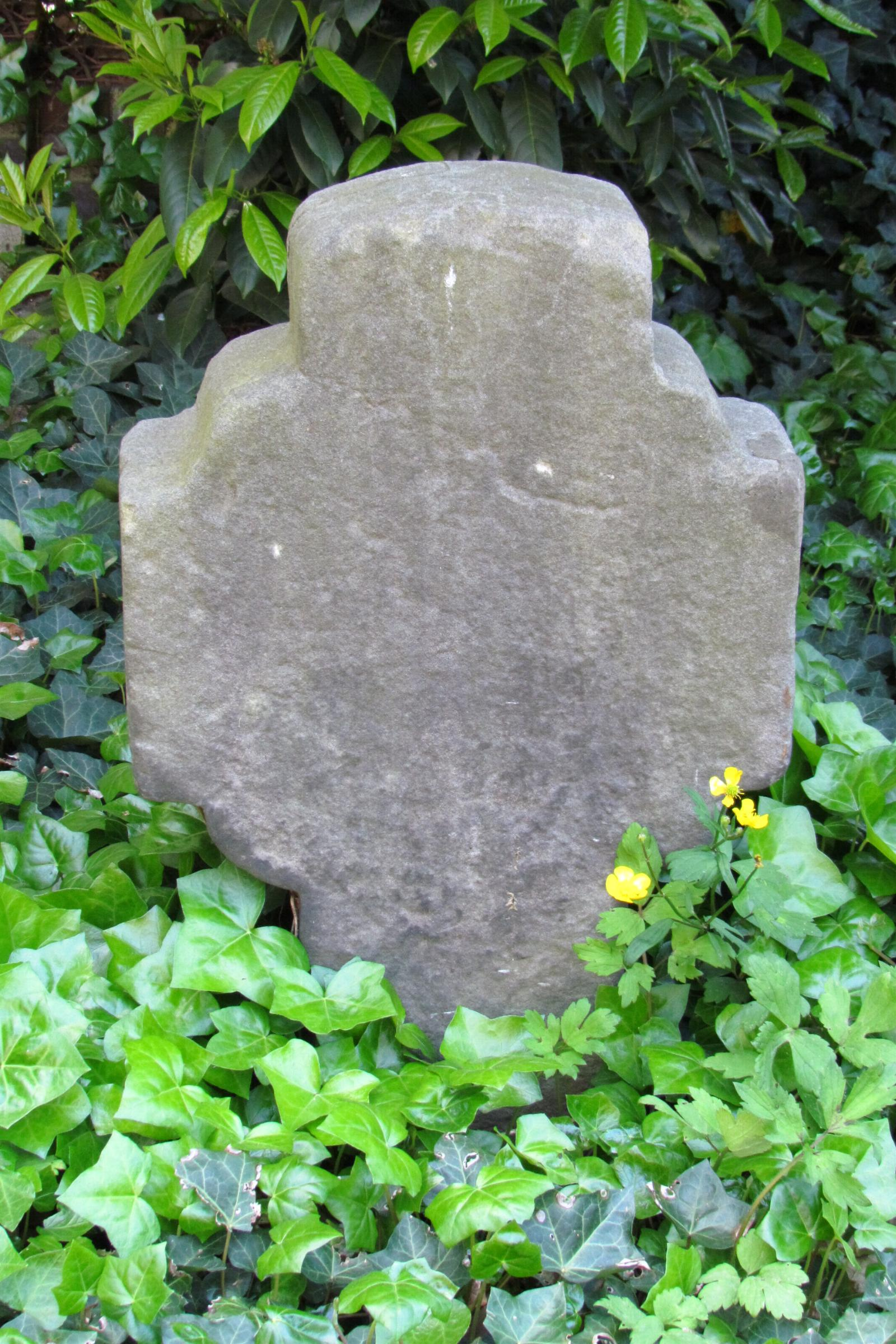 This is a photograph of an architectural monument.It is on the list of cultural monuments of Korschenbroich